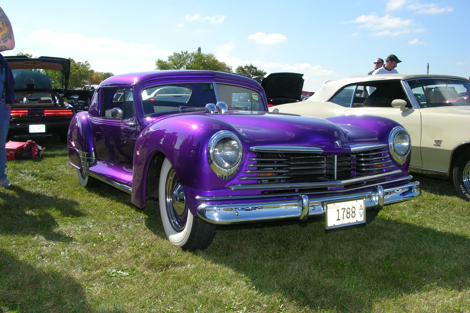 This is one of George Barris's early custom cars - done in 1952. This custom started out life as a 1947 Hudson Super-6 Convertible. It was chopped, channeled and sectioned, it has a removable hard top, 1952 Hudson Hornet 7X engine, GM 4 speed hydramatic transmission, 1950 Oldsmobile 336 rearend Mr. Barris or "King of the Kustomizers" is the creator of cars such as the Batmobile (Batman the TV series), The Munster Koach (The Musters TV series), The Beverly Hillbillies truck to name just a few.